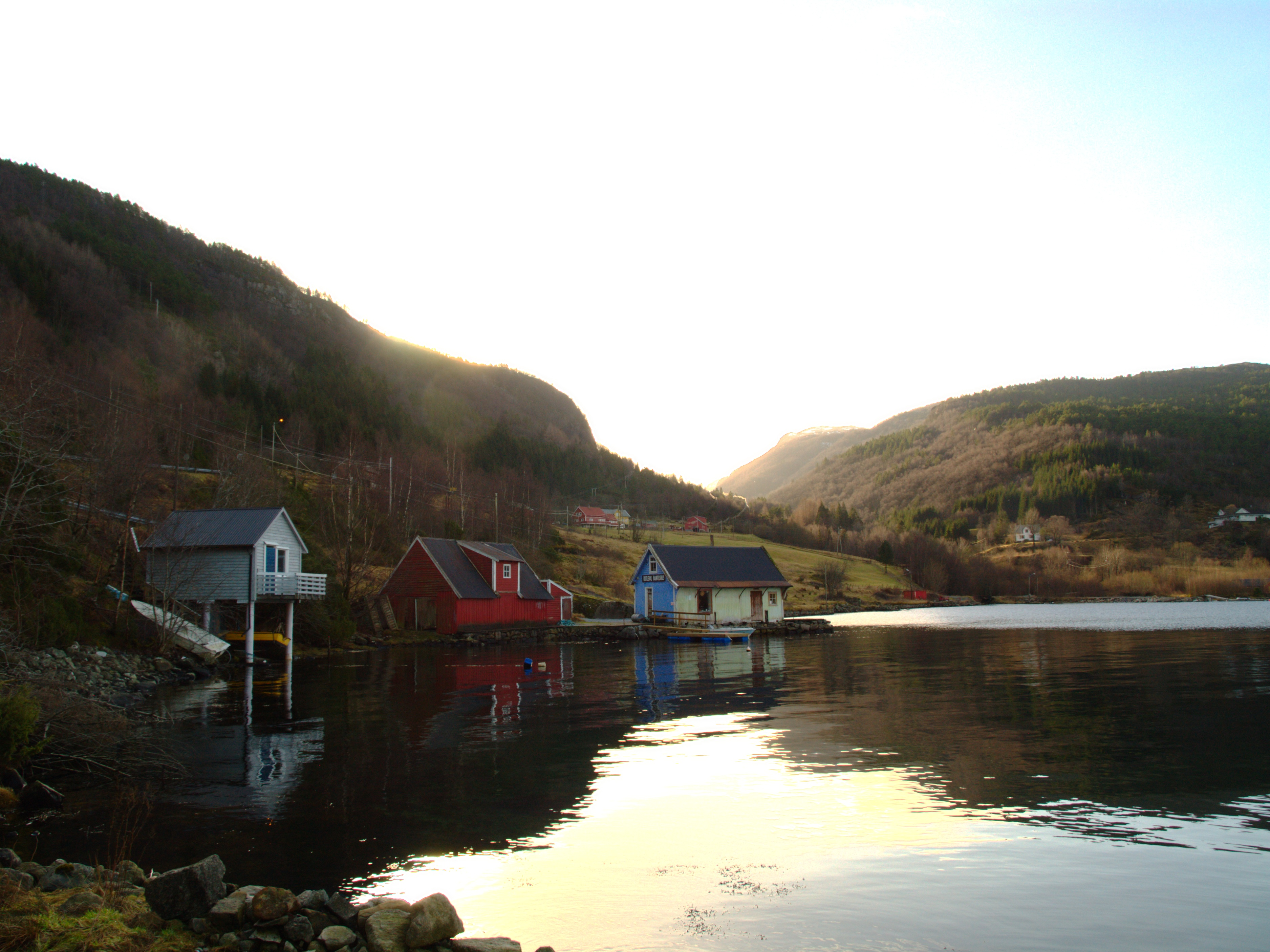 Rutledal in Gulen municipality, Norway. The house out on the pir is the old Rutledal store house.[3]